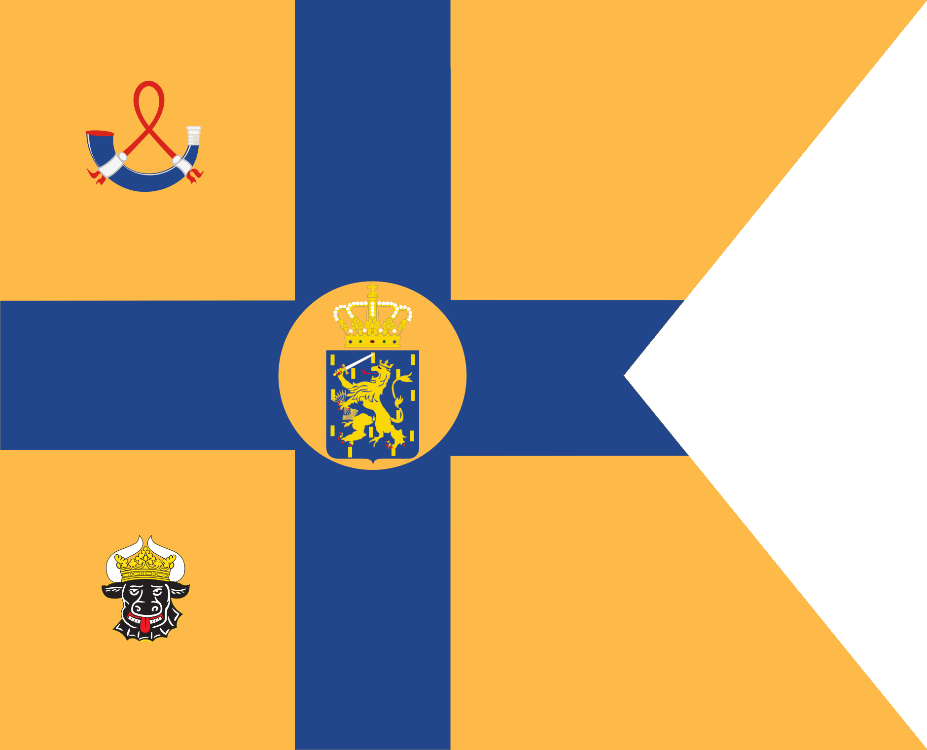 Standard of Juliana of the Netherlans as Princess (After and before her abdication)